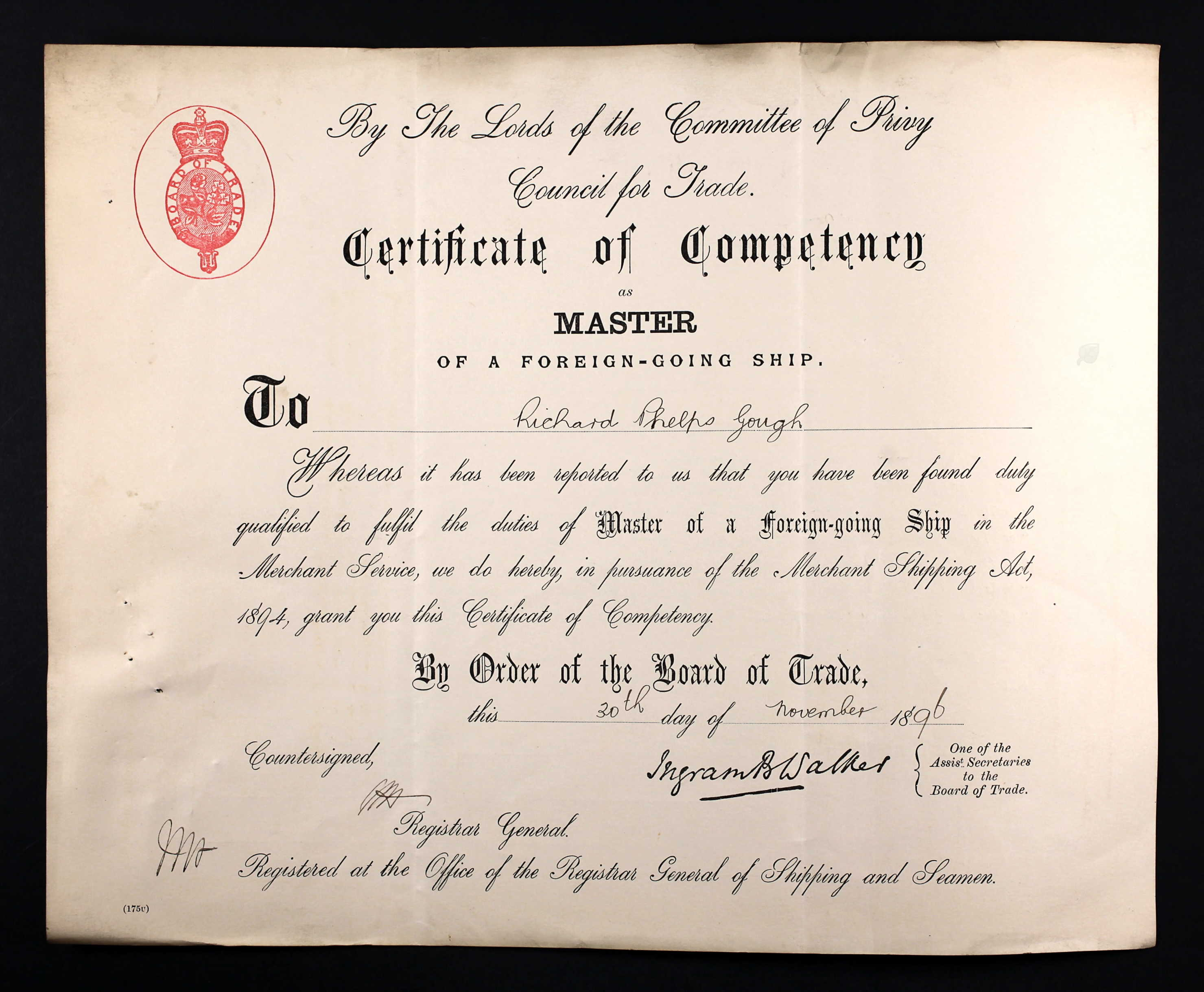 Certificate of competency as Master of a foreign-going ship (1896) Board of Trade